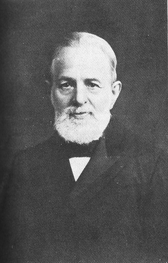 Portrait of Michael Friedländer, former principal of Jews' College, London.